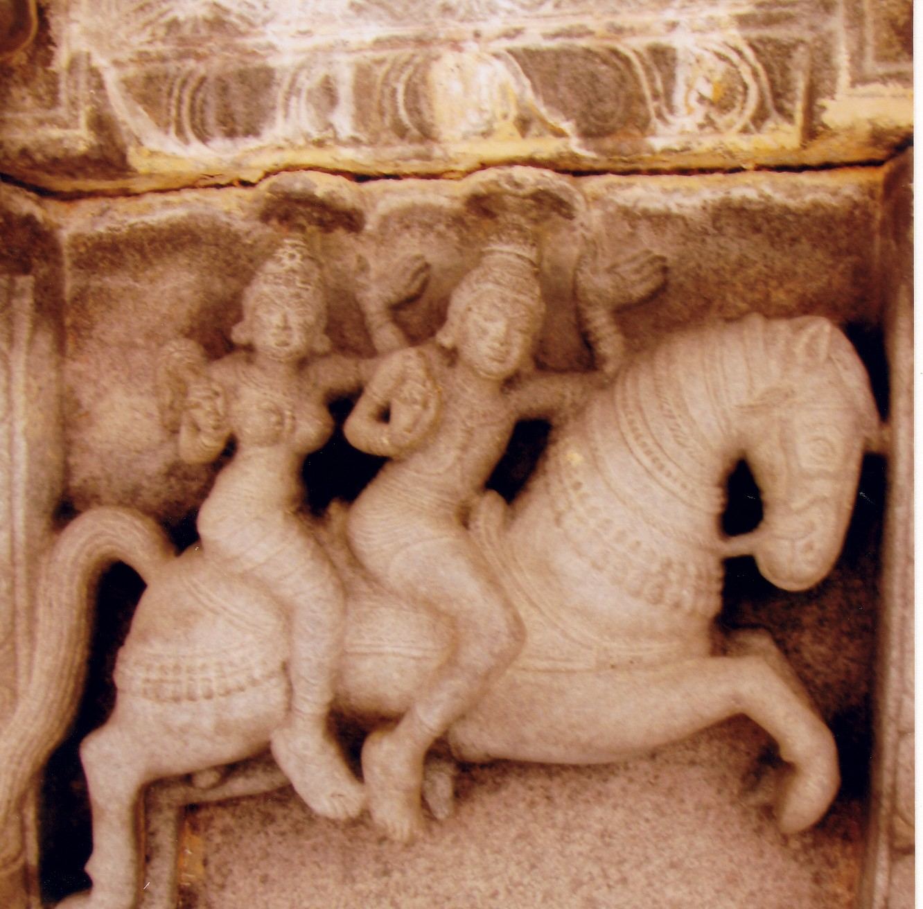 Photograph taken by self (Dinesh Kannambadi) at Panchakuta Basadi in Kambadahalli, Mandya district, Karnataka state, India